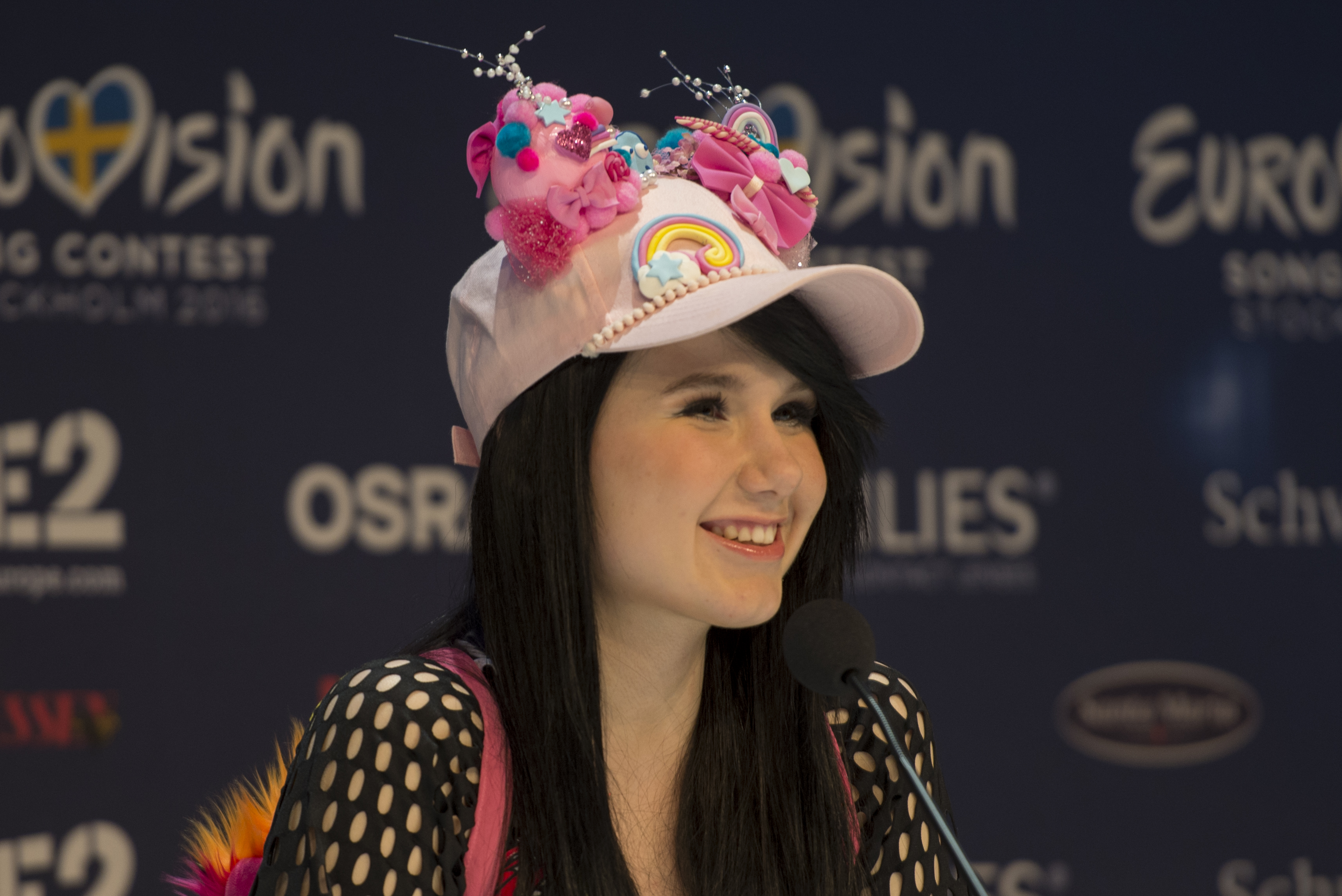 Jamie-Lee at a press conference during the Eurovision Song Contest 2016 in Stockholm. (Help translate this text)